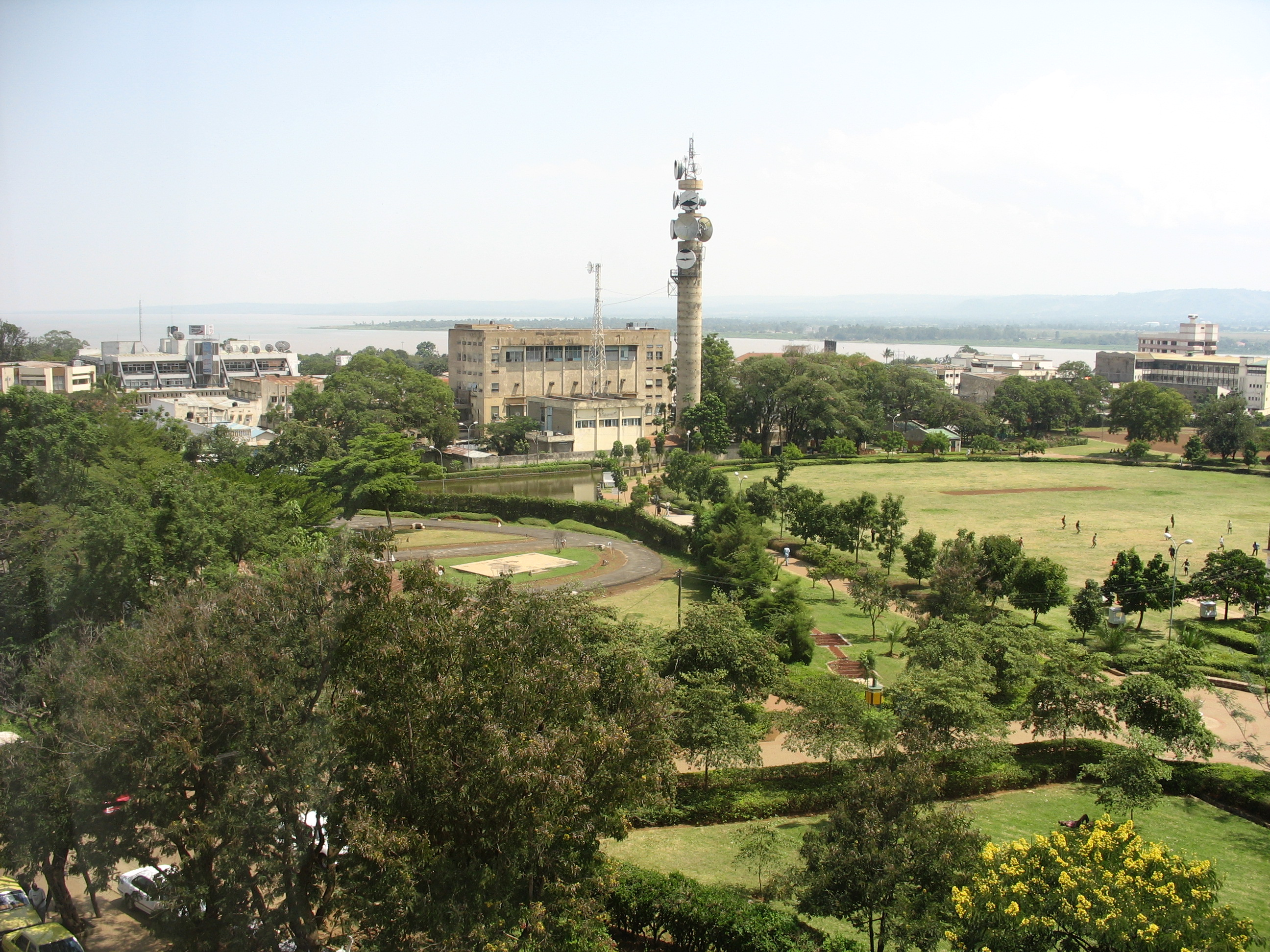 Jomo Kenyatta Stadium in Kisumu, Kenya